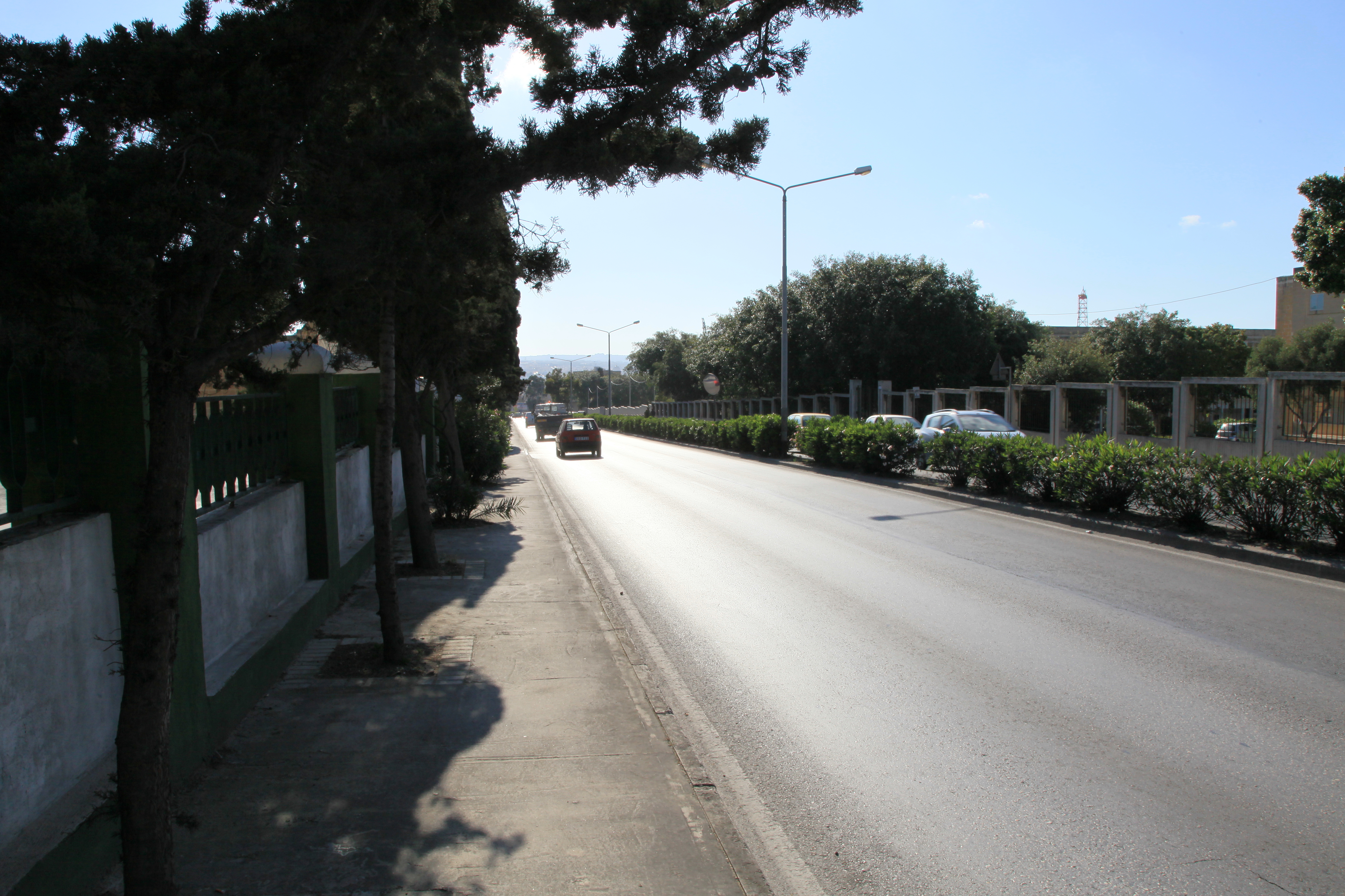 Triq Kordin in Paola, Malta